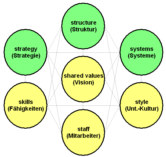 Grafik zum Eintrag 7-S-Modell; Hans-Jürgen Geiß, Kaiserslautern, Juni 2005 GNU-Lizenz